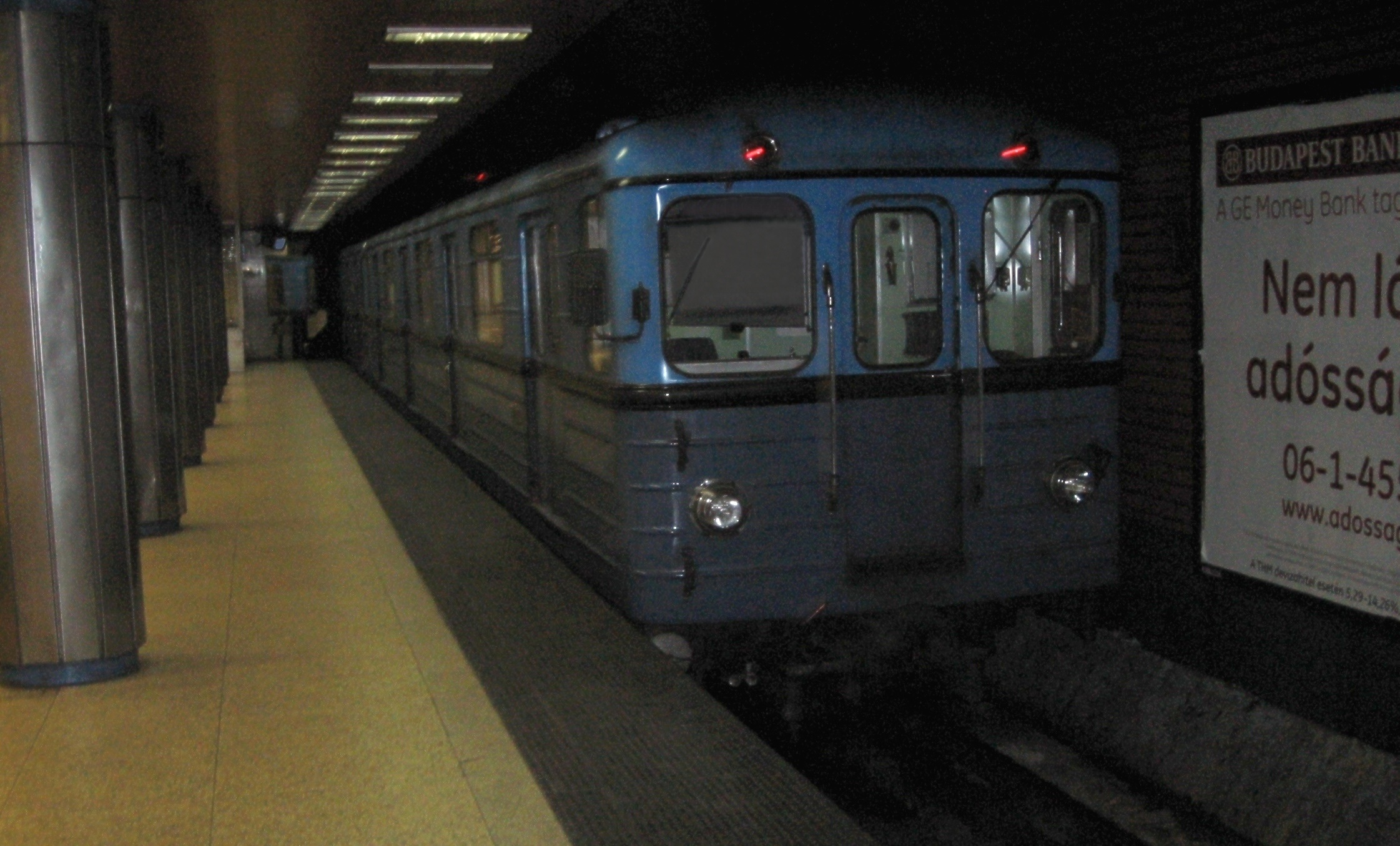 Budapest metro line 2